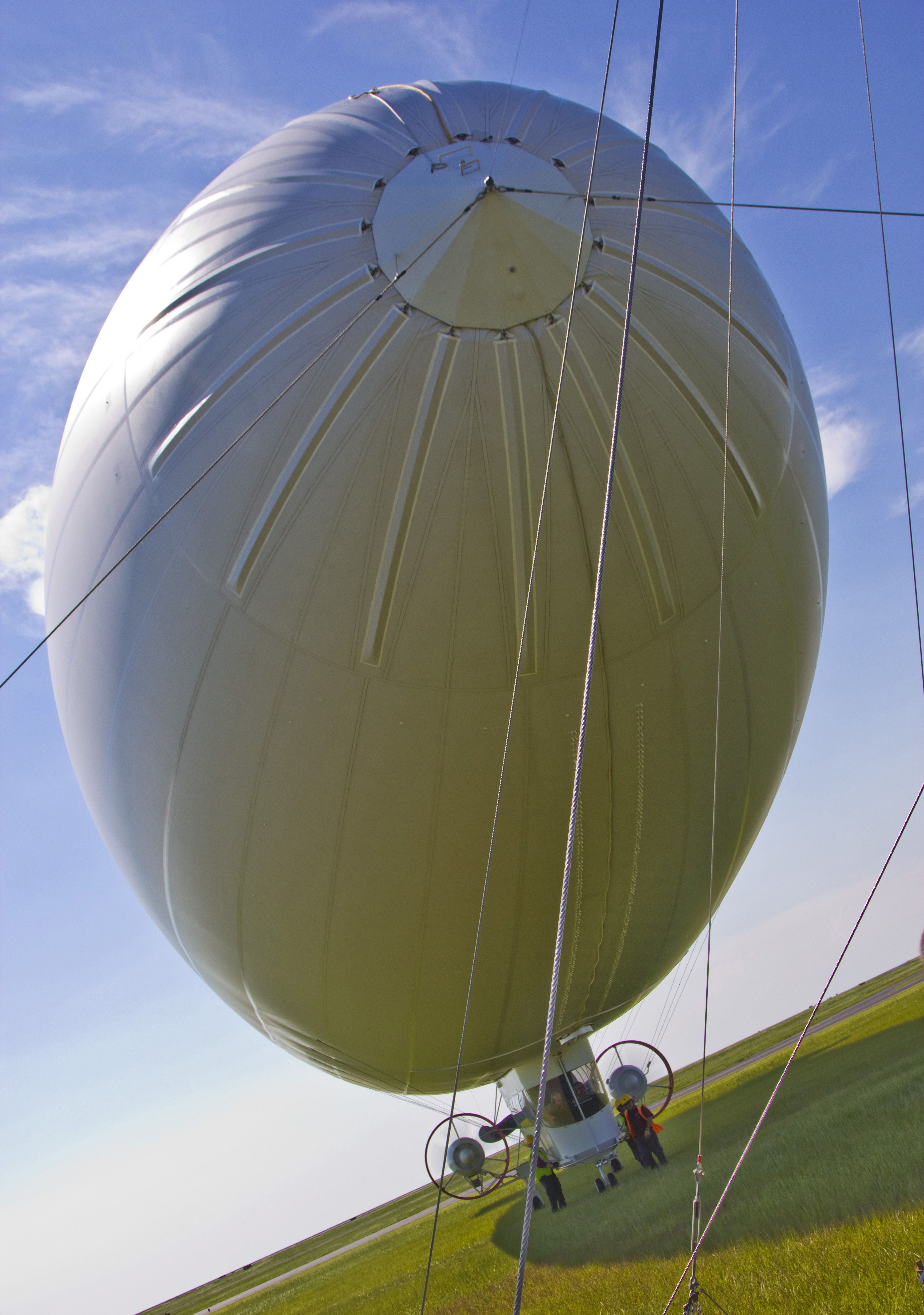 NEW ORLEANS (July 8, 2010) A U.S. Navy MZ-3A manned airship, Advanced Airship Flying Laboratory, derived from the commercial A-170 series blimp lands at Lake Front Airport, New Orleans, La., to provide logistical support for the Deepwater Unified Command and the Gulf of Mexico oil spill. The Coast Guard requested the support of the Navy vehicle to help detect oil, direct skimming vessels and look for wildlife that may be threatened by oil. (U.S. Navy photo by Mass Communication Specialist 2nd Class Andrew Geraci/Released)